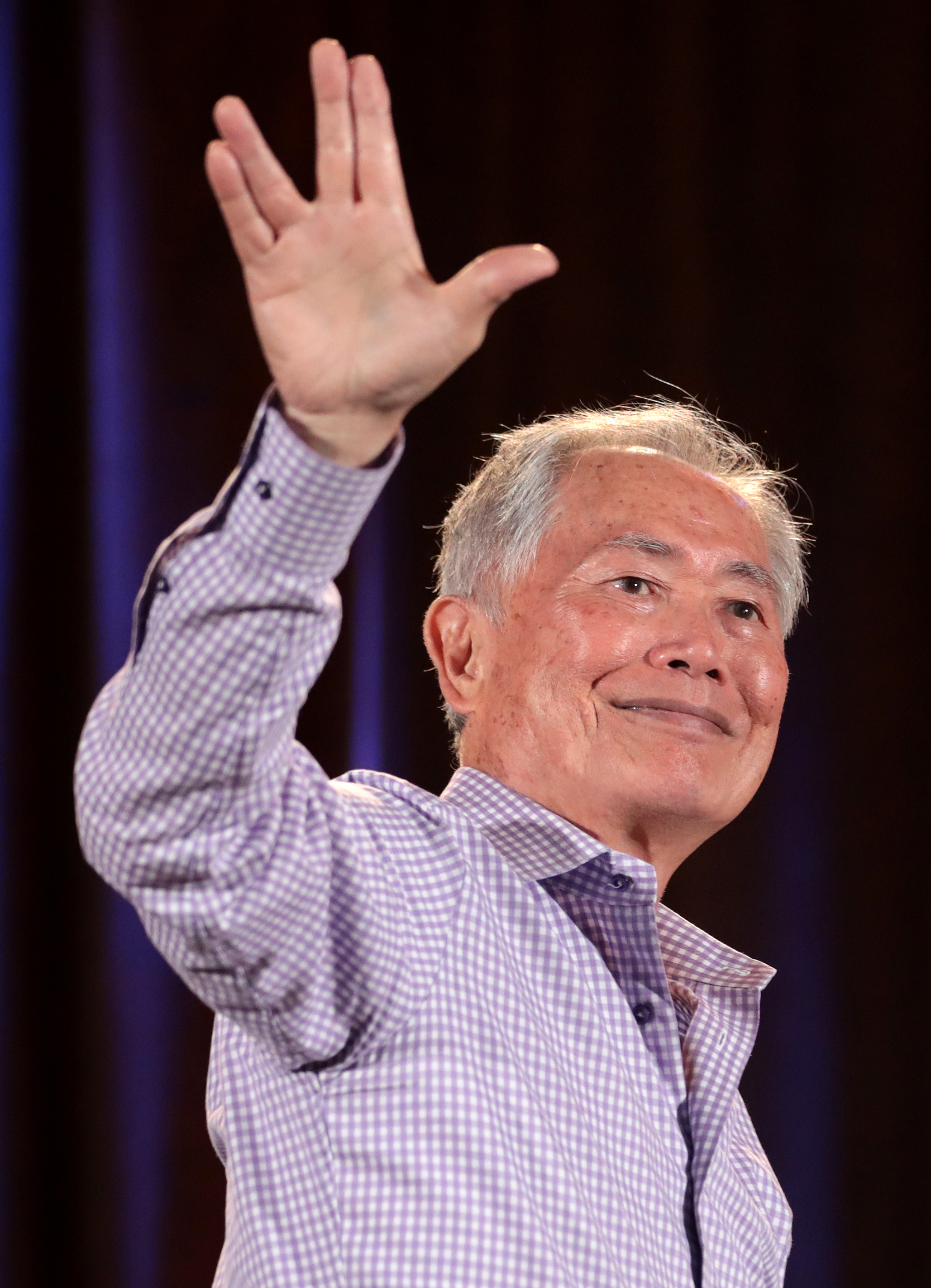 George Takei speaking at the 2019 Phoenix Fan Fusion in Phoenix, Arizona.